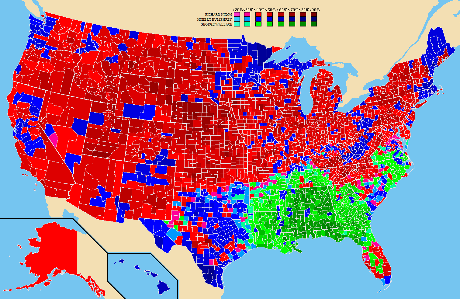 Election results by county. Red: Richard Nixon; Blue: Hubert Humphrey; Green: George Wallace.